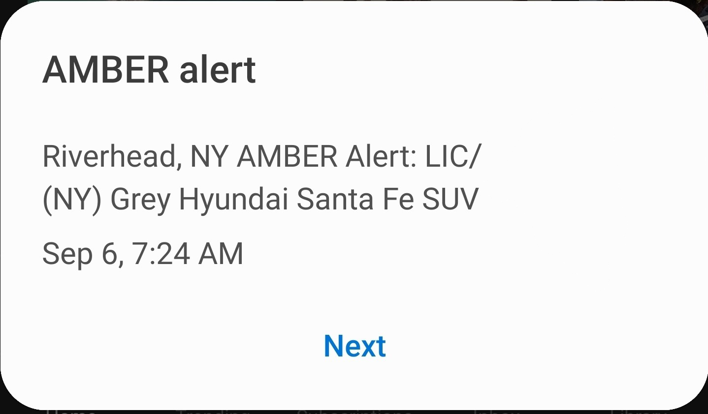 An amber alert on Android. Text reads in all caps "Riverhead, NY AMBER Alert: LIC/ [license plate removed] (NY) Grey Hyundai Santa Fe SUV"